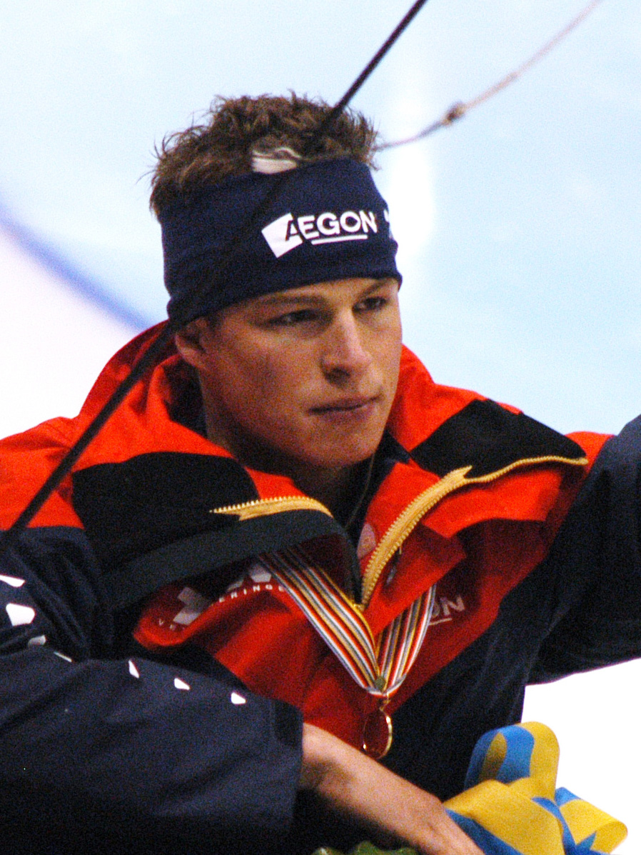 Sven Kramer (NED) in horse-drawn sleighs on ice after winning the European Allround Speed Skating Championship 2009 in Heerenveen, the Netherlands.